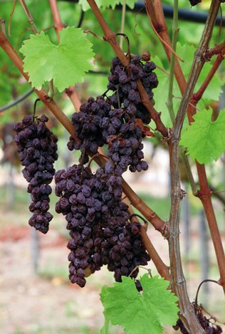 October 15, The grape sun-wilting on the plant: ending